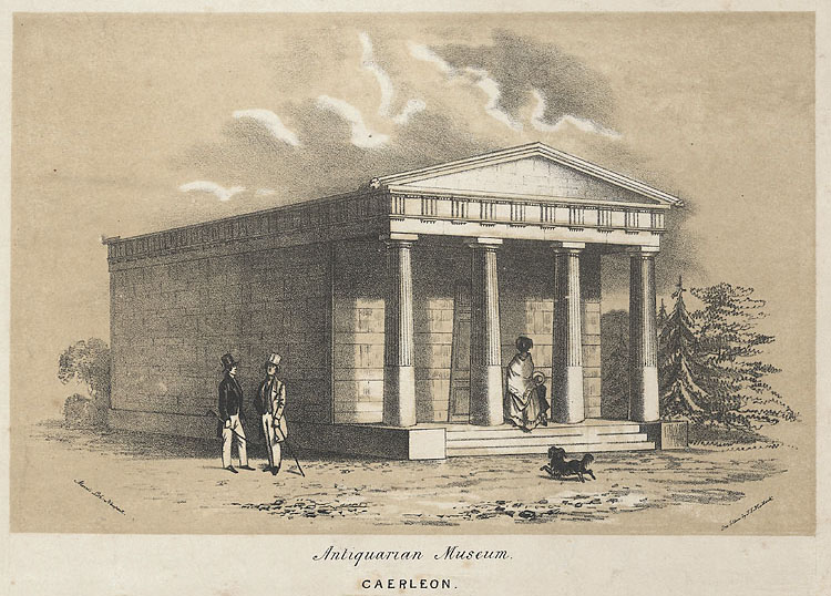 Woman and child entering museum, two men outside.